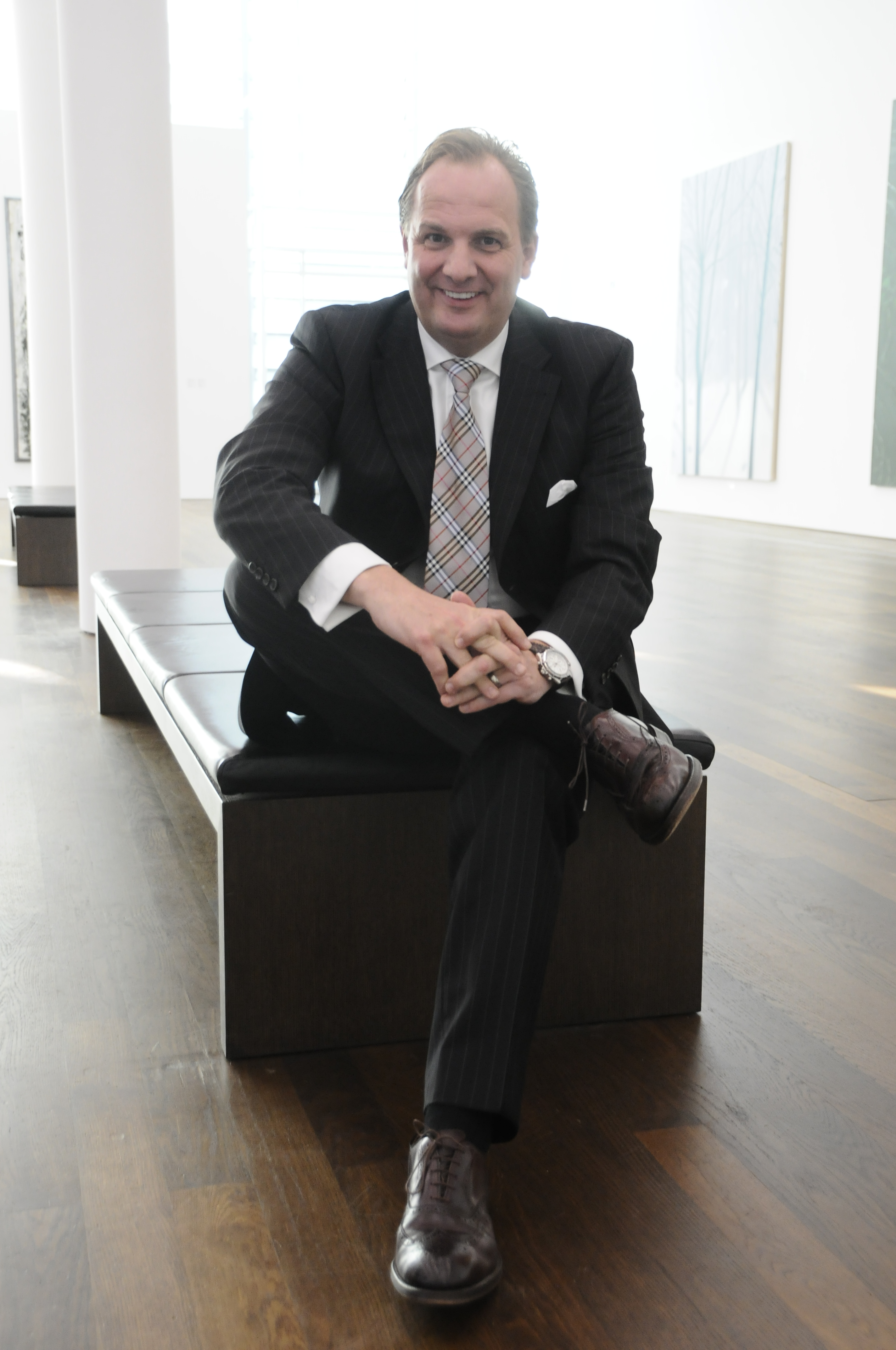 Markus Orth CEO of L'TUR Tourismus AG